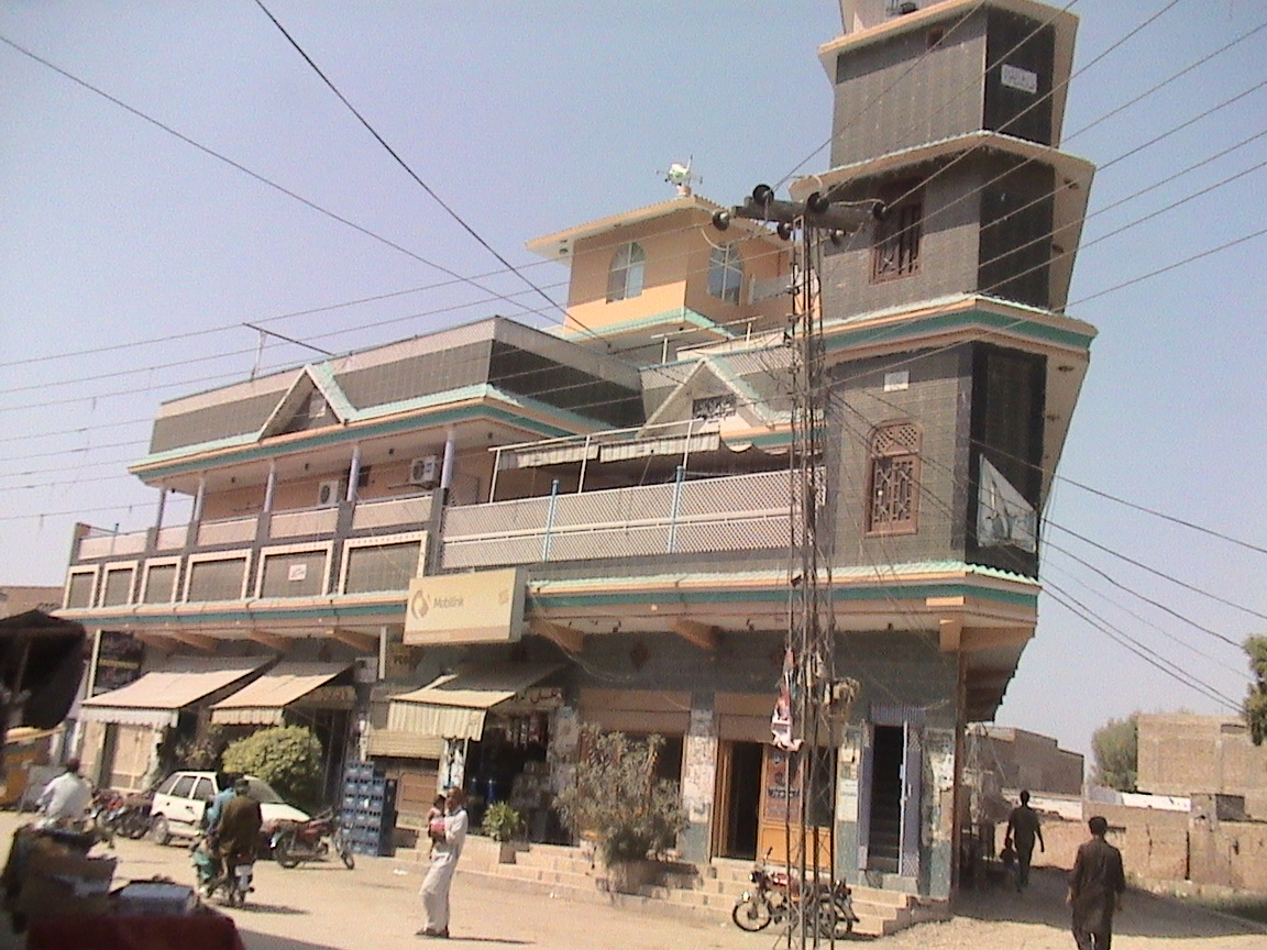 Beautiful House of Ghotki, Pakistan